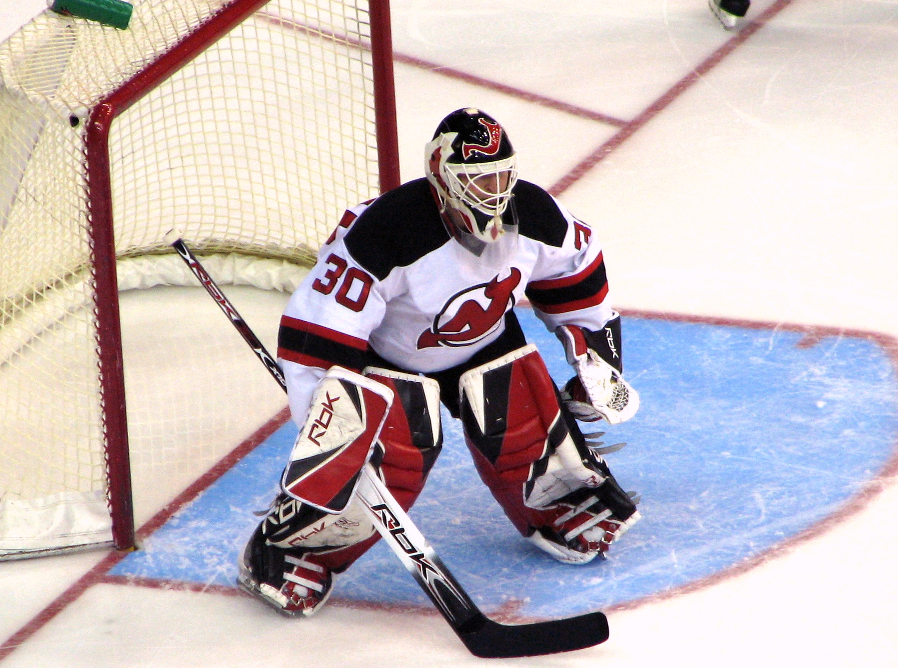 Martin Brodeur of the New Jersey Devils in a game against the Washington Capitals on February 24, 2008